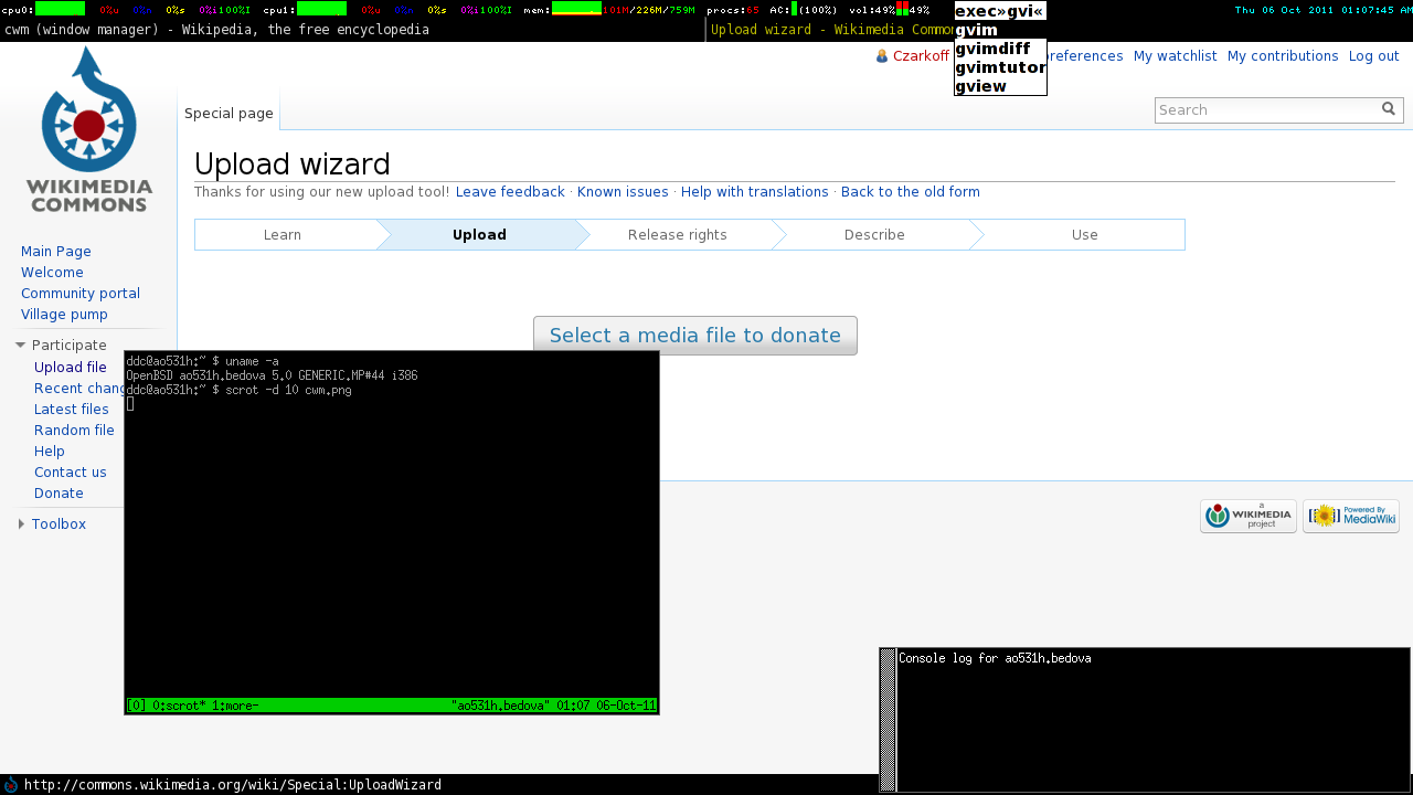 OpenBSD desktop managed with cwm running xstatbar, xconsole, xombrero/xxxterm and uxterm (with tmux, scrot and man).